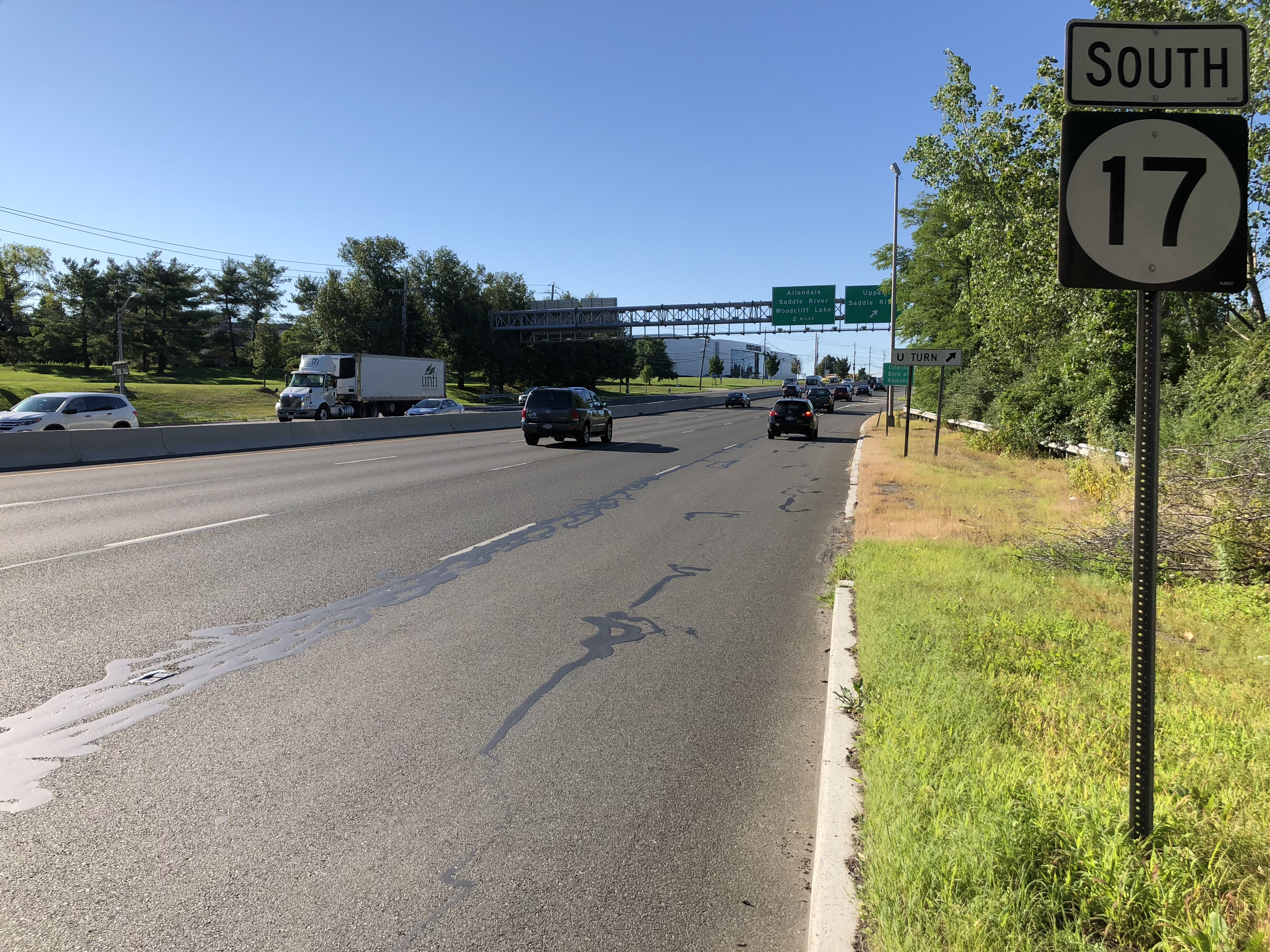 View south along New Jersey State Route 17 just north of the exit for Upper Saddle River in Upper Saddle River, Bergen County, New Jersey